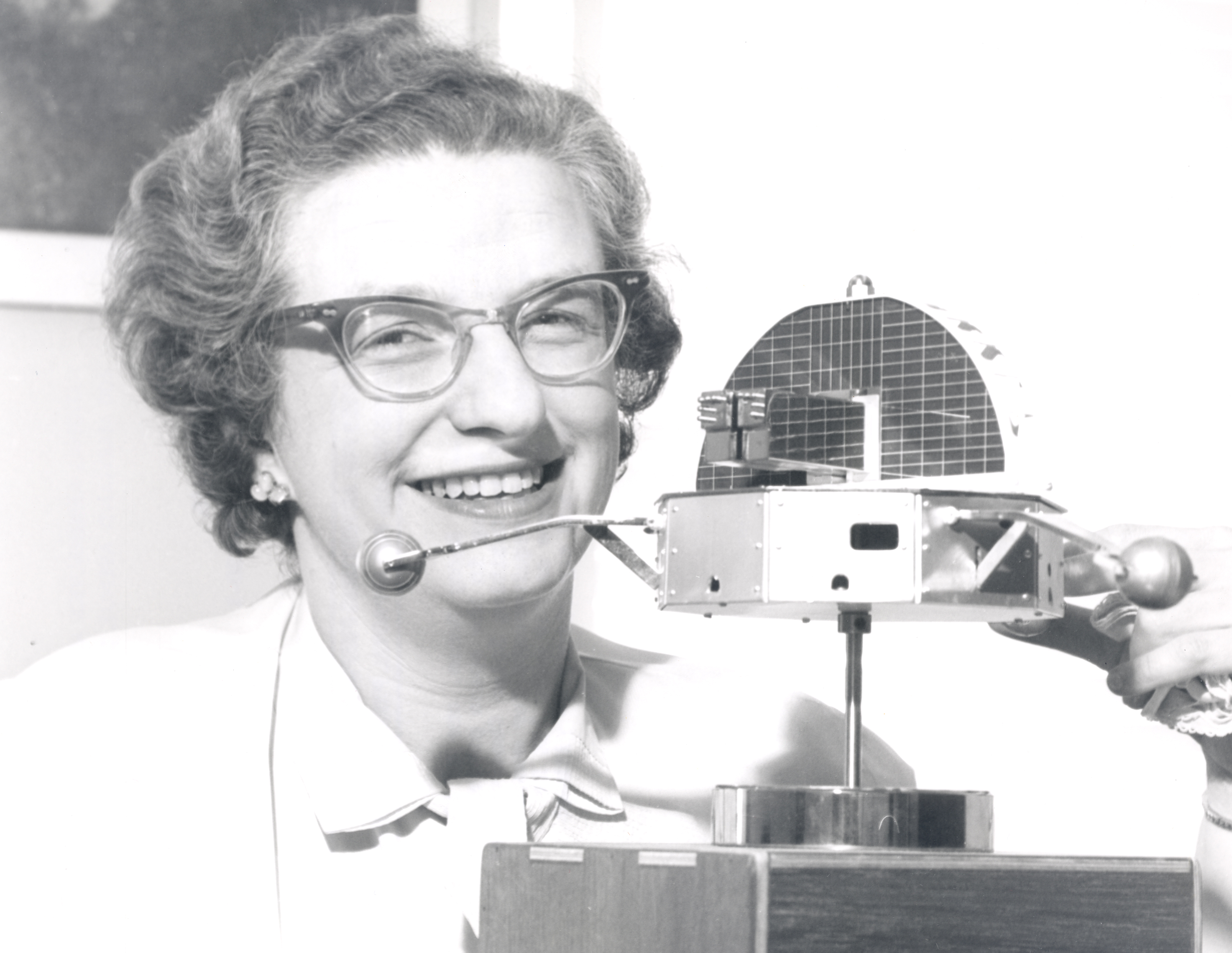 Dr. Nancy Roman, one of the nations top scientists in the space program, is shown with a model of the Orbiting Solar Observatory (OSO). Dr. Nancy Roman received her PhD in astronomy from the University of Chicago in 1949. In 1959, Dr. Roman joined NASA and in 1960 served as Chief of the Astronomy and Relativity Programs in the Office of Space Science. She was very influential in creating satellites such as the Cosmic Background Explorer (COBE) and the Hubble Space Telescope (HST). She retired from NASA in 1979, but continued working as a contractor at the Goddard Space Flight Center. Throughout her career, Dr. Roman was a spokesperson and advocate of women in the sciences.